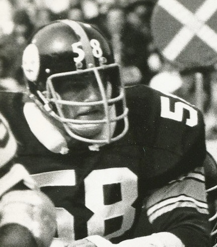 Pittsburgh Steelers linebacker Jack Lambert in the December 7, 1975 game.